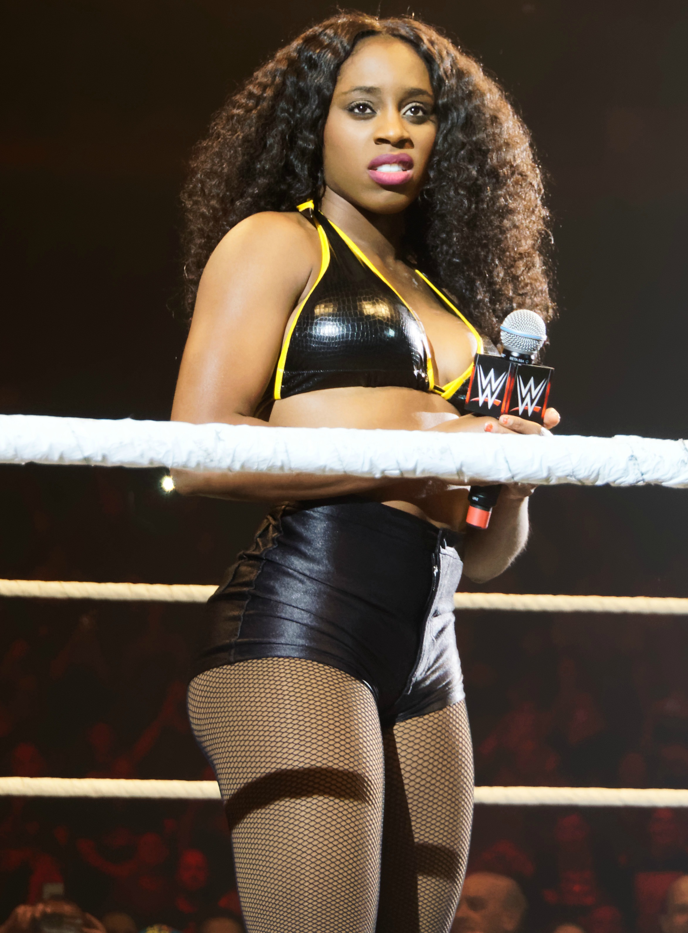 Naomi during a live event in 2015.